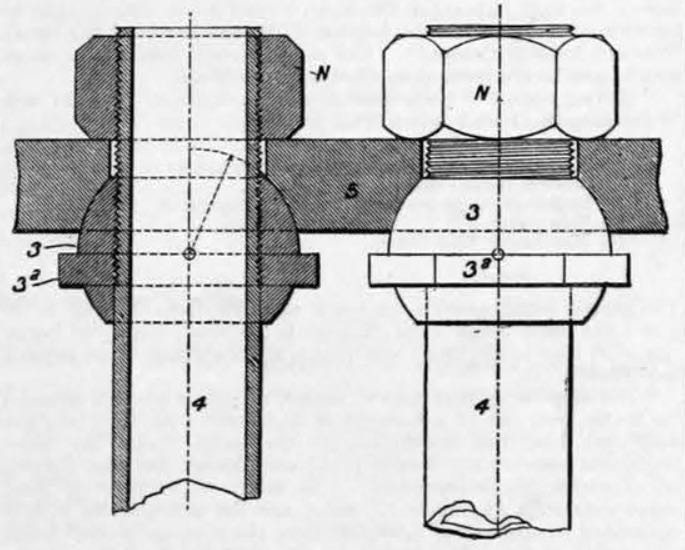 Cross section and plan of the connection between a water tube and chamber in a Reed water tube boiler. The end of the tube is threaded, and a ferrule with a convex hemispherical profile is screwed onto it. The end of the tube is then inserted into a hole with a concave hemispherical profile and of slightly larger diameter in the wall of a water chamber and secured with a nut on the inside of the chamber. The hemispherical profiles and the diameter of the hole allow for slight variations in fitting tubes. "[T]hough they have been many times under steam, not a single leak has occurred."(Anon., "Reed's water-tube boilers", The Engineer, 14 February 1896, p. 172)